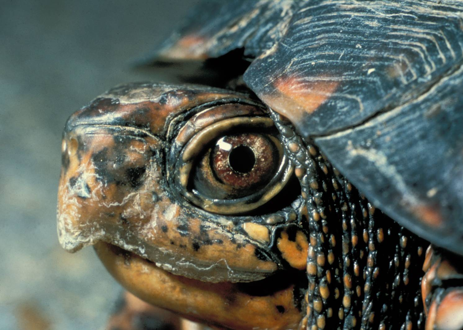 Photo of an Eastern Box Turtle (Terrapene carolina carolina)